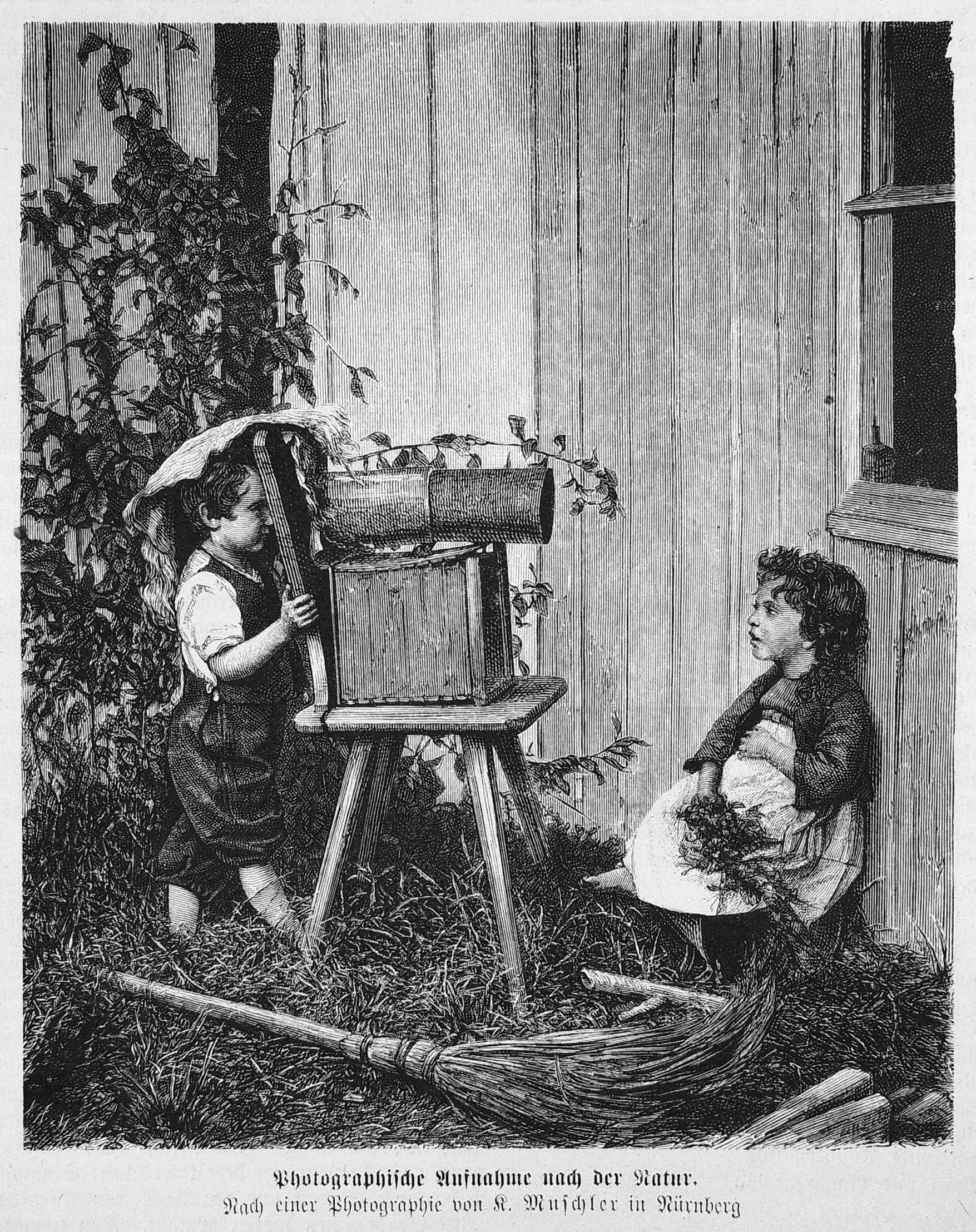 caption: "Photographische Aufnahme nach der Natur. Nach einer Photographie von K. Muschler in Nürnberg"